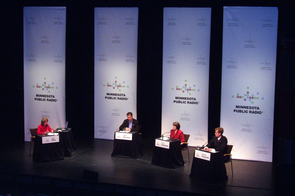 Debate between the candidates in the 2006 Minnesota U.S. Senate election, hosted by Minnesota Public Radio.